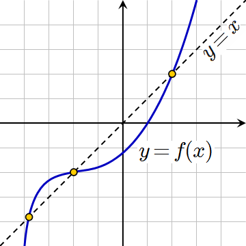 The graph of a function with three fixed points.